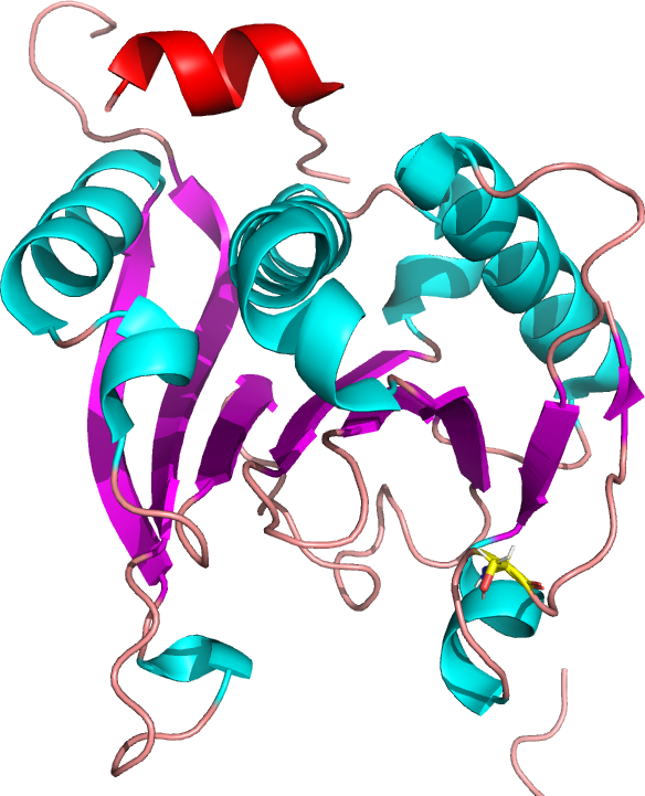 protein generated from Pymol using PDB structure